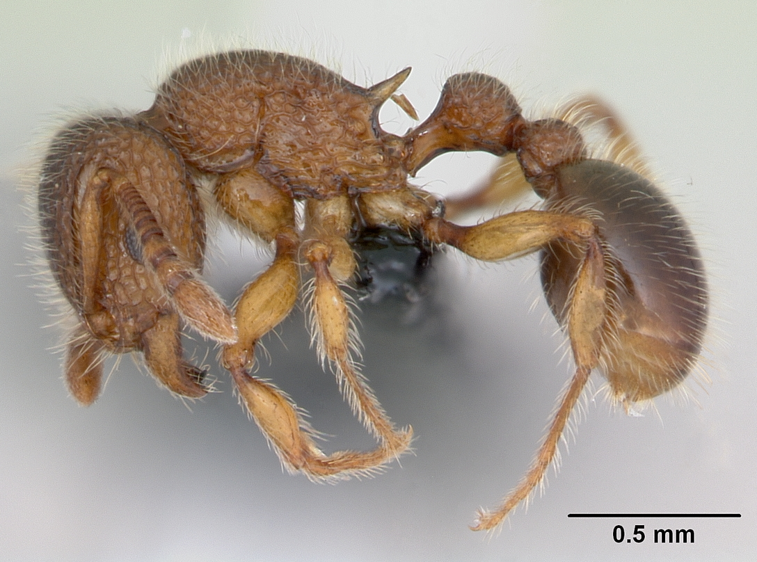 Profile view of ant Tetramorium lanuginosum specimen casent0125328.